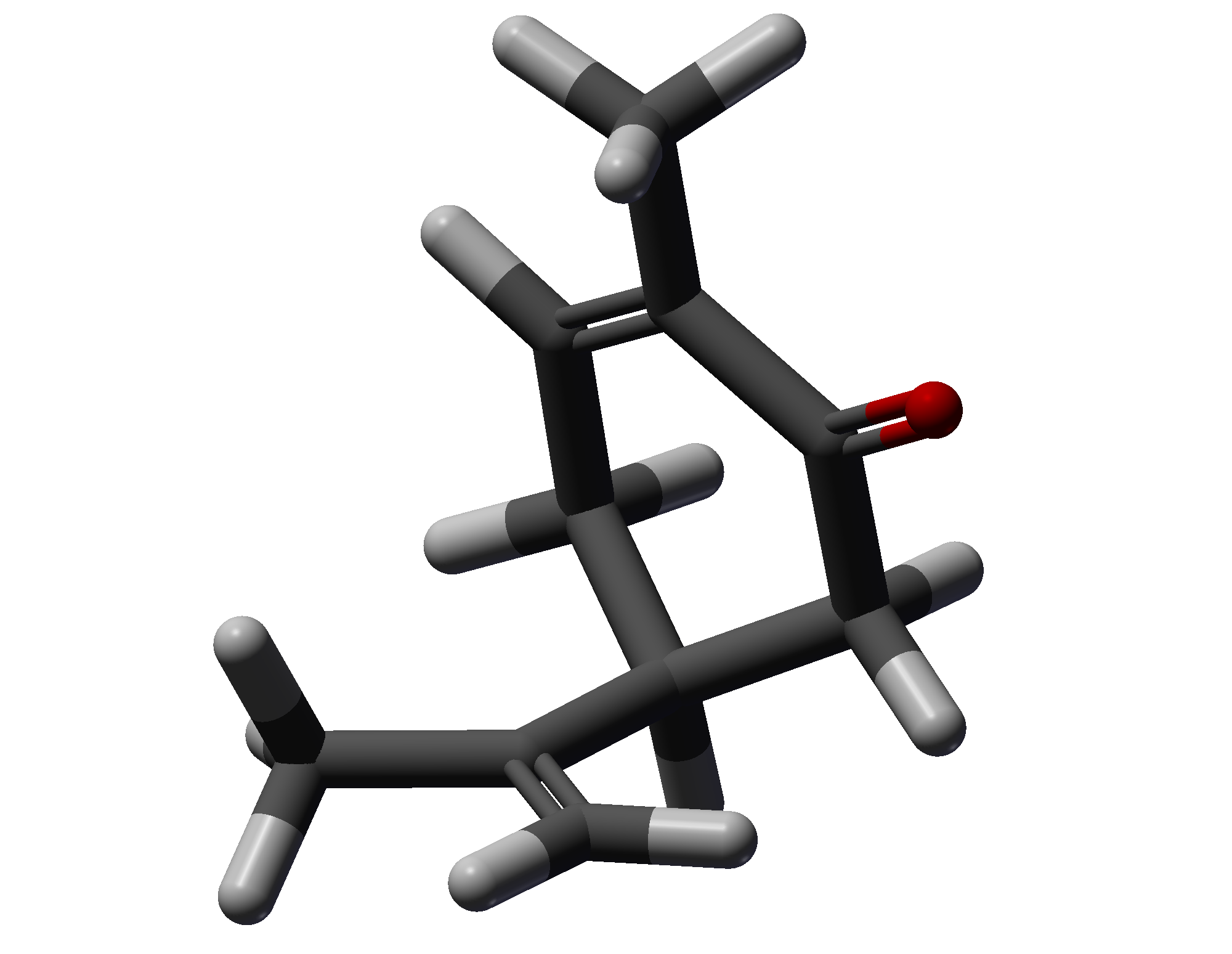 3D Stick model of (S)-Carvone. Prepared using Discovery Studio Visualizer 1.7 and GIMP 2.2